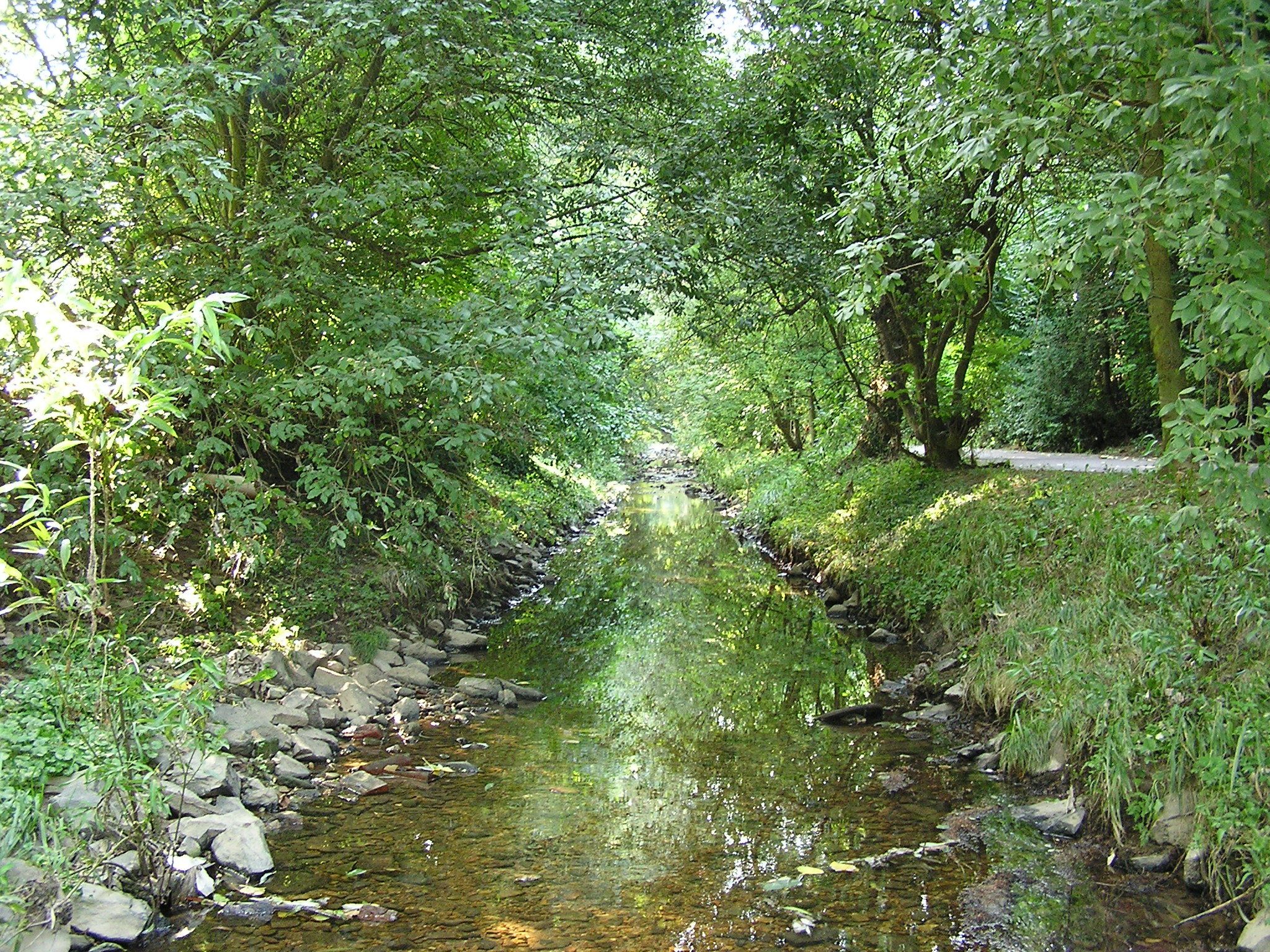 The “Eschbach” in Bad Homburg, Germany